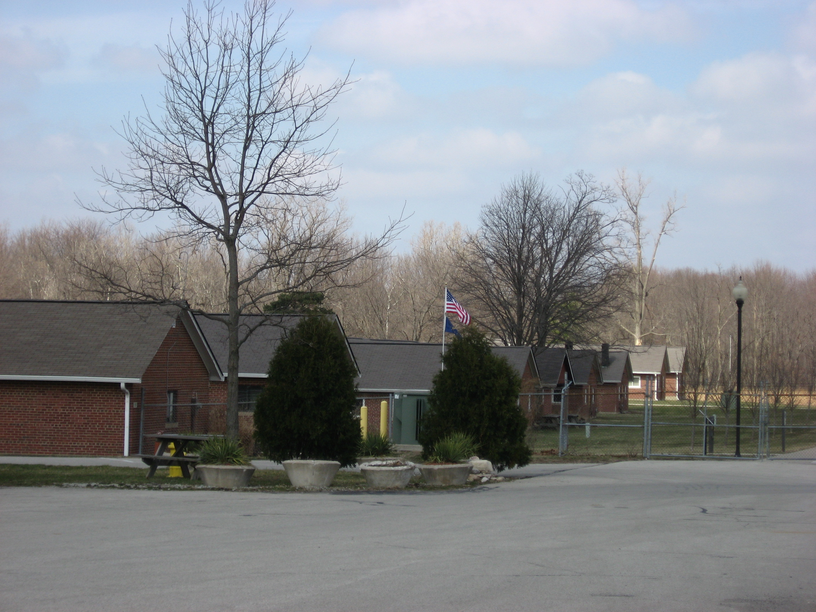 Barracks at Camp Edwin F. Glenn on the grounds of the former Fort Benjamin Harrison in Indianapolis, Indiana, United States. Built to house Italian and German prisoners of war during World War II, the camp is listed on the National Register of Historic Places.